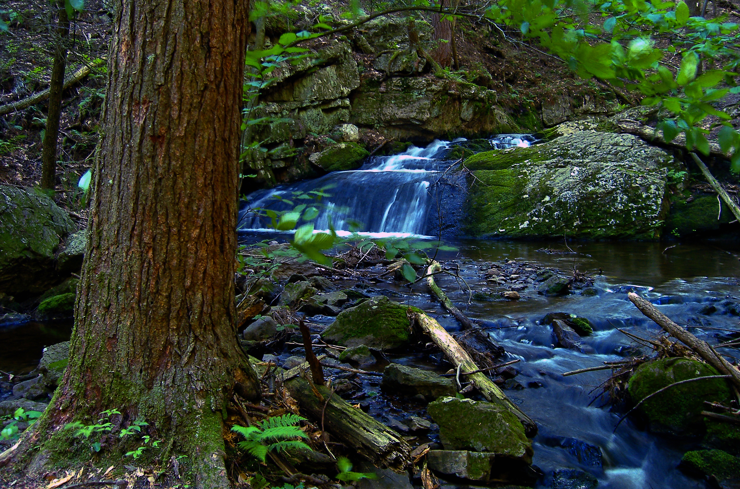 Tillman Brook, Stokes State Forest, Sussex County.